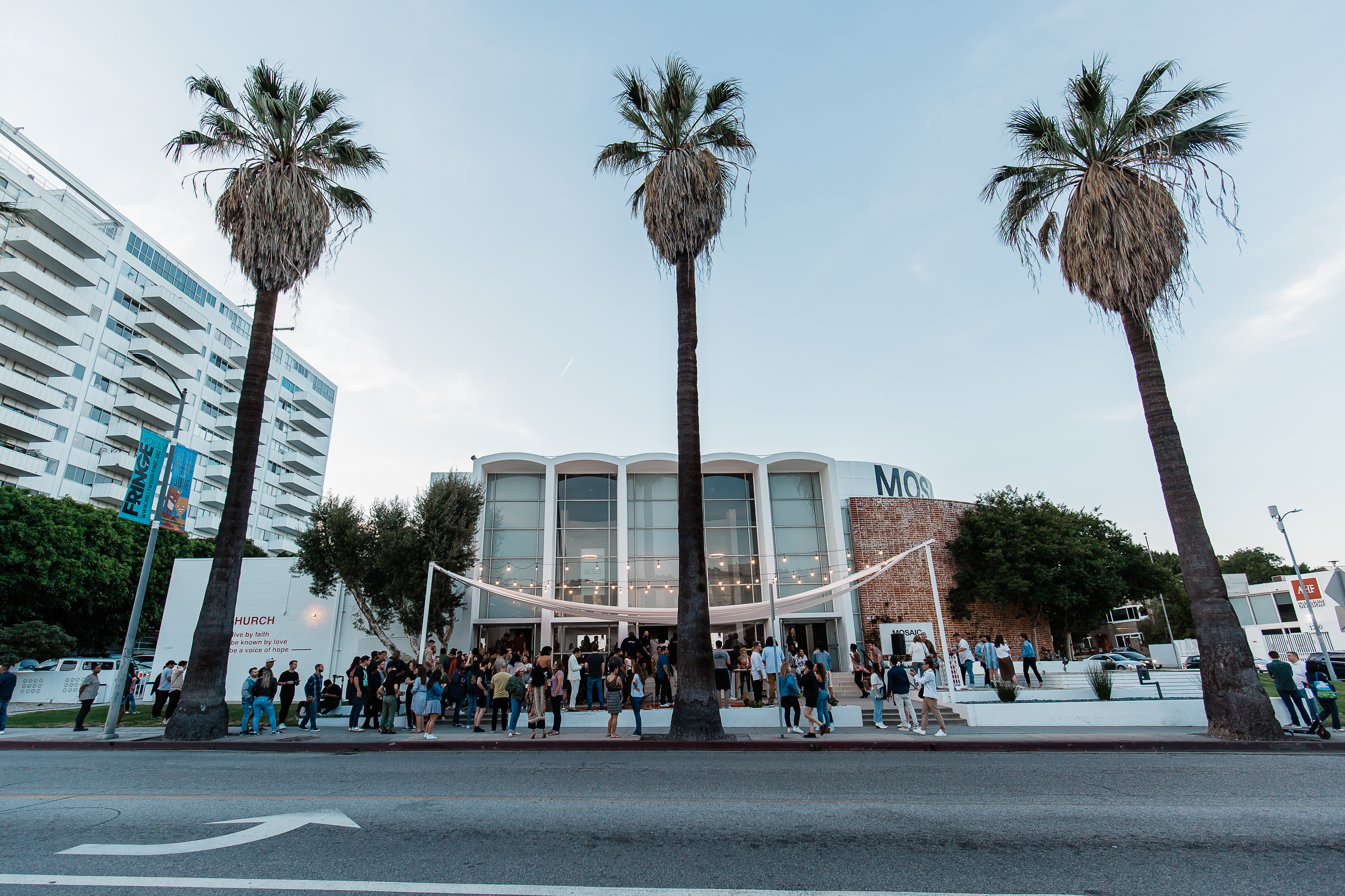 Outside view of Mosaic Church Hollywood, from Hollywood Blvd